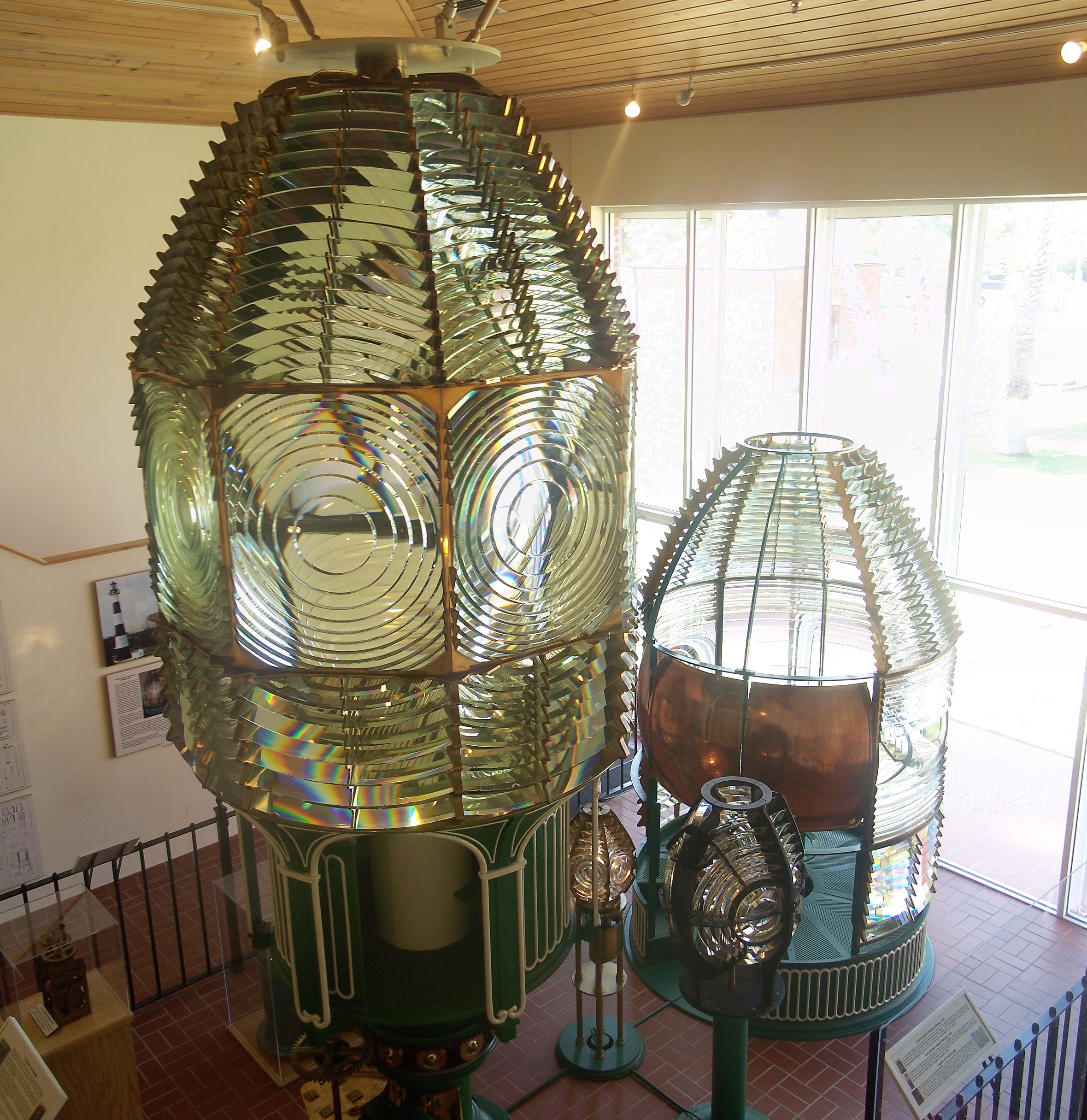 The first-order Fresnel lenses from the Cape Canaveral Lighthouse (left) and the Ponce de Leon Inlet Light (right) on display at the Lighthouse Museum of the Ponce de Leon Inlet Light Station, south of Daytona Beach, Florida.